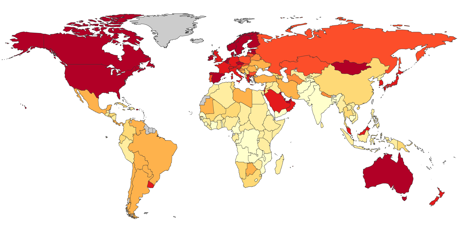 Ecological Footprint, 2007